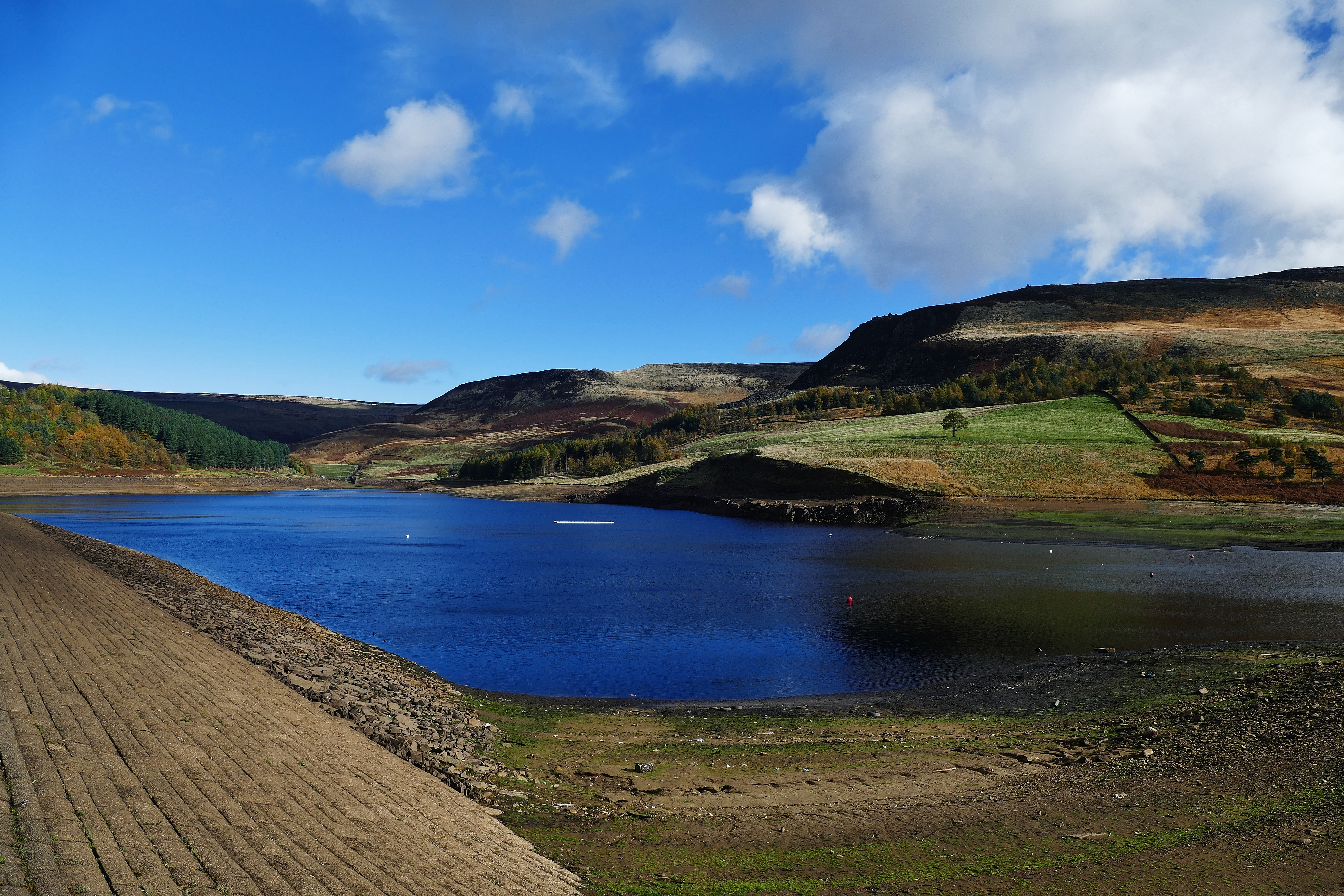 Low water at the Dovestone Reservoir in October 2018